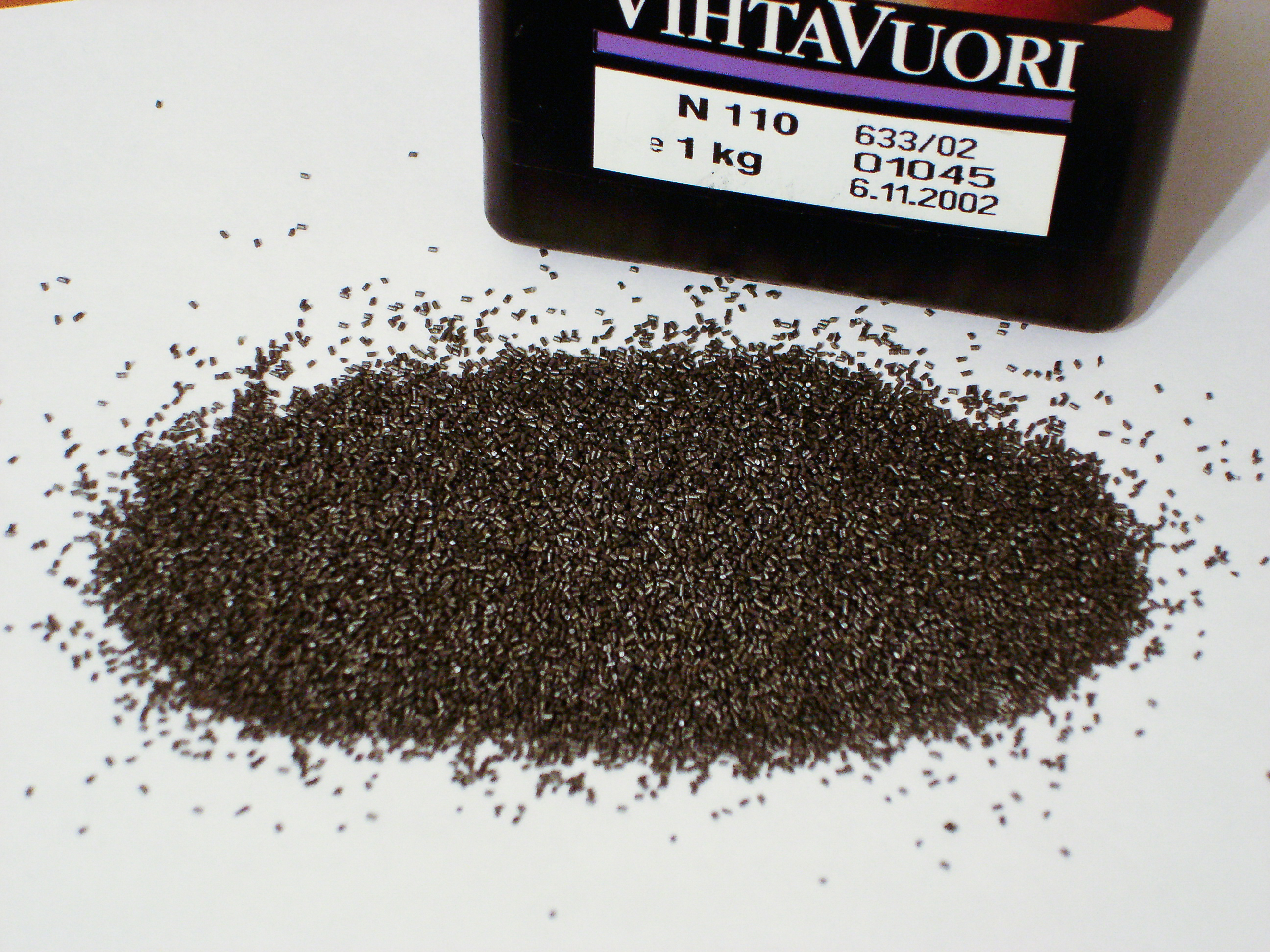 Vihtavuori N110 smokeless gunpowder